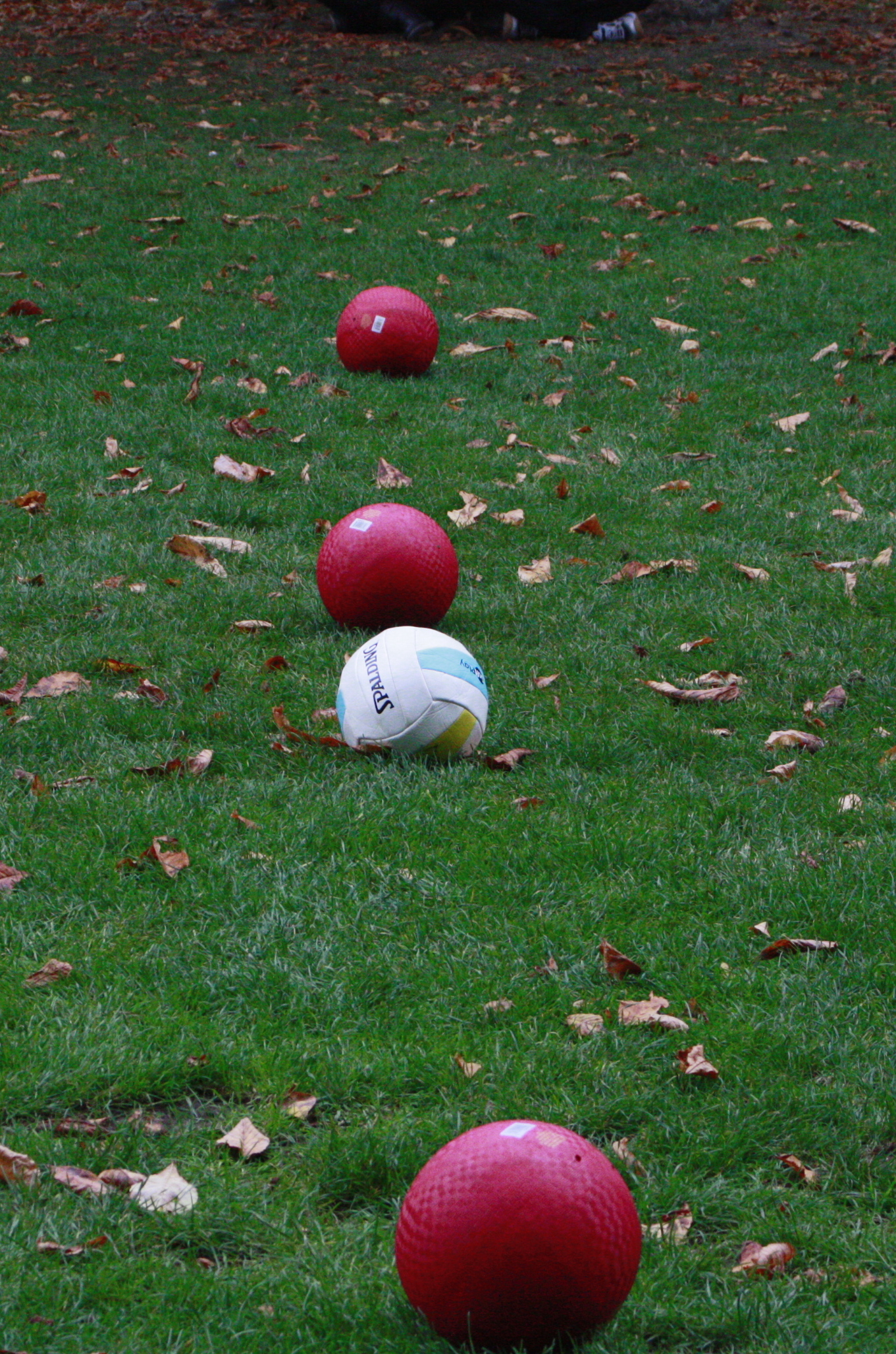 Three bludgers and a quaffle lined up for brooms up at the beginning of a quidditch match. Small Version